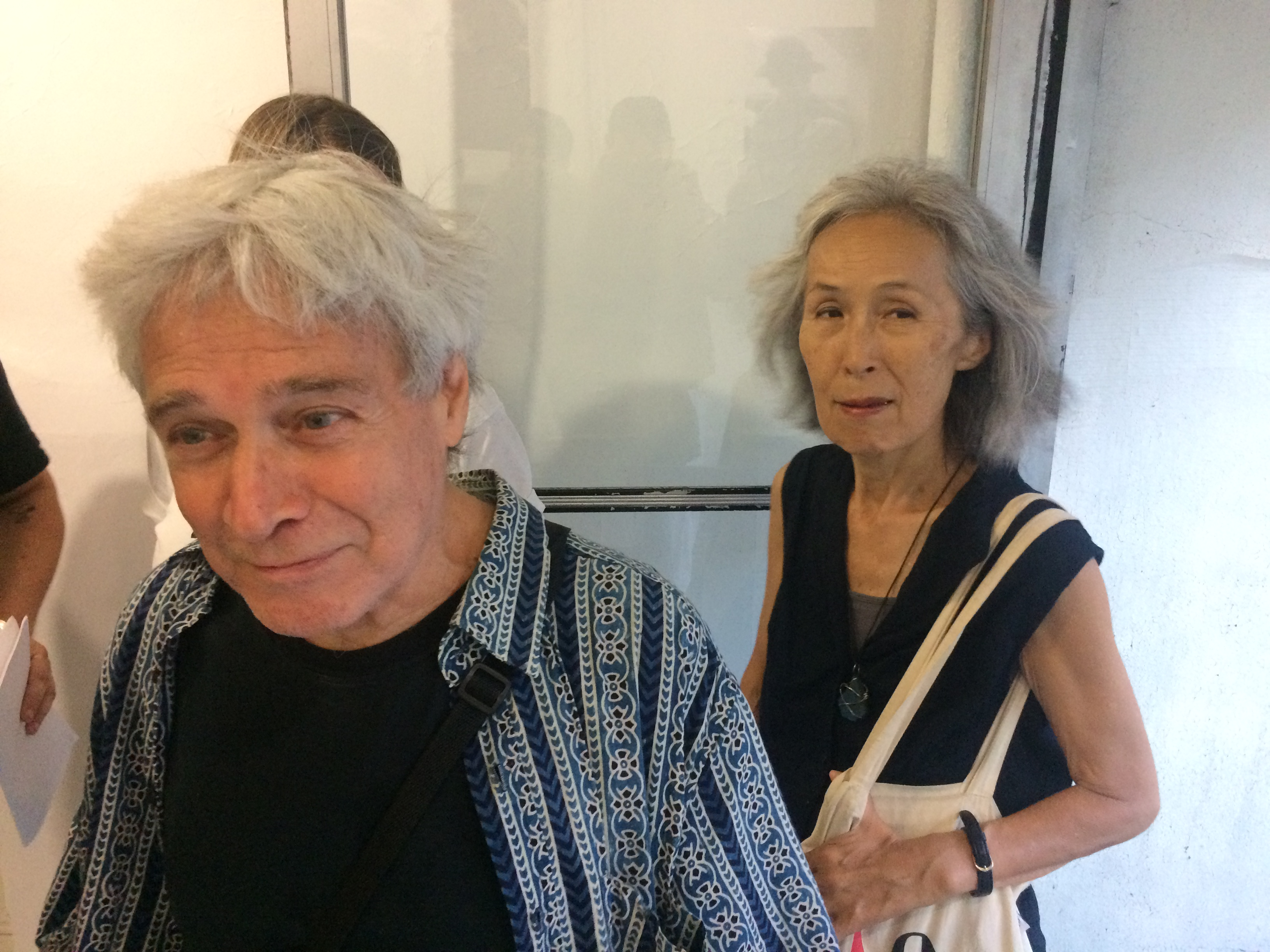 photograph of Steve Dalachinsky and his wife Yuko Otomo